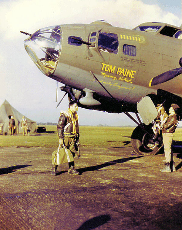 B-17F "Tom Paine" of the 388th Bomb Group, RAF Knettishall, England, World War II.